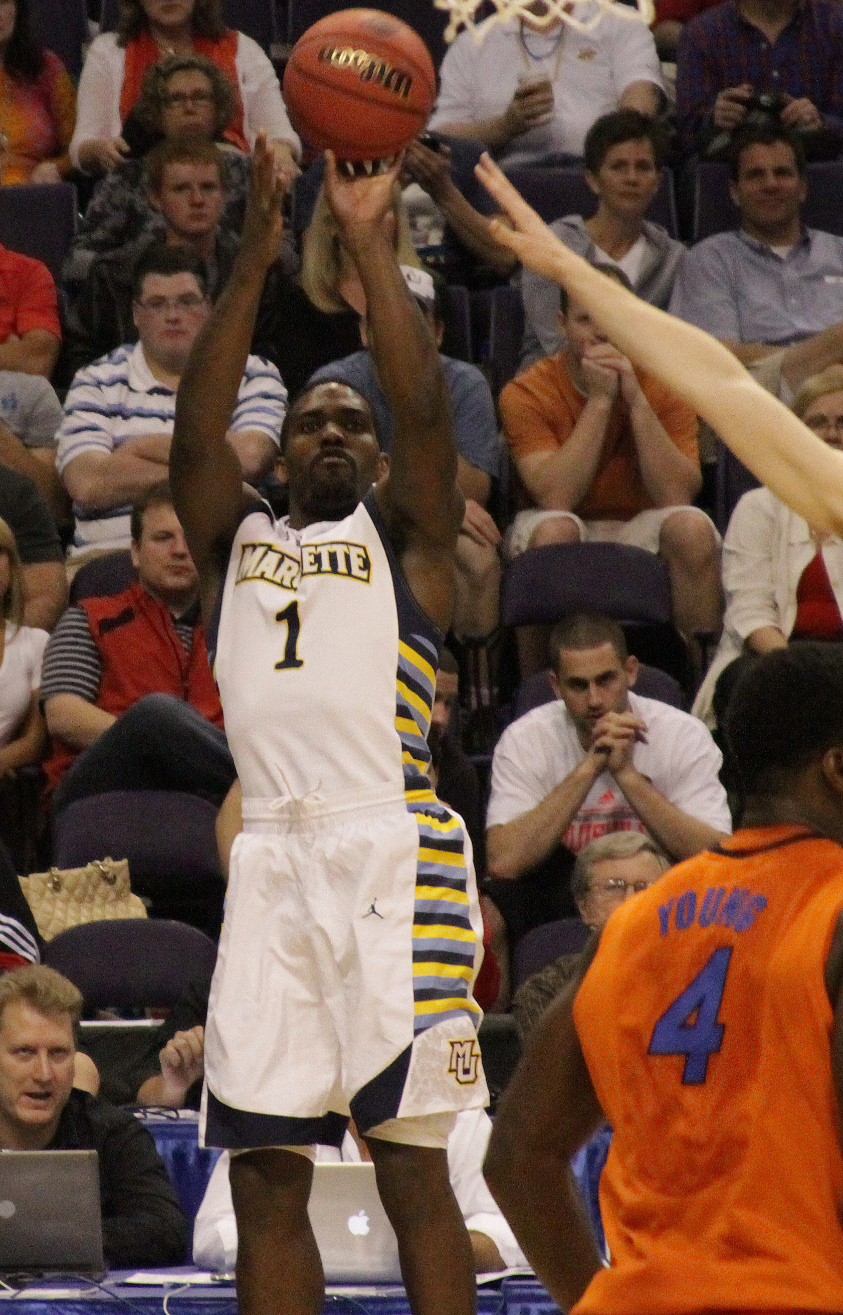 MISSED 3 PTR by JOHNSON-ODOM, Darius